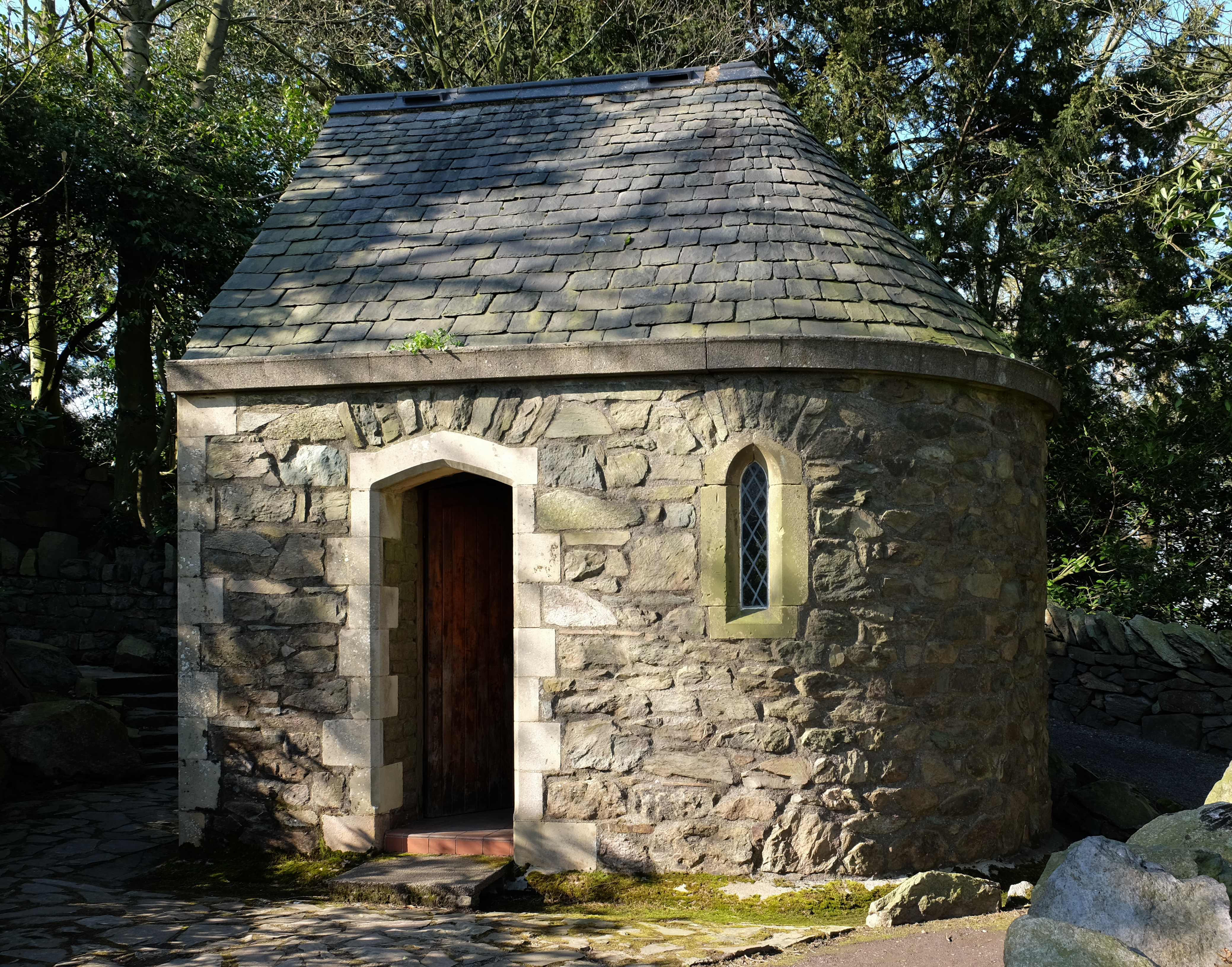 The small Chapel of Dolours at Mount Saint Bernard Abbey, Leicestershire. It houses a Pietà.